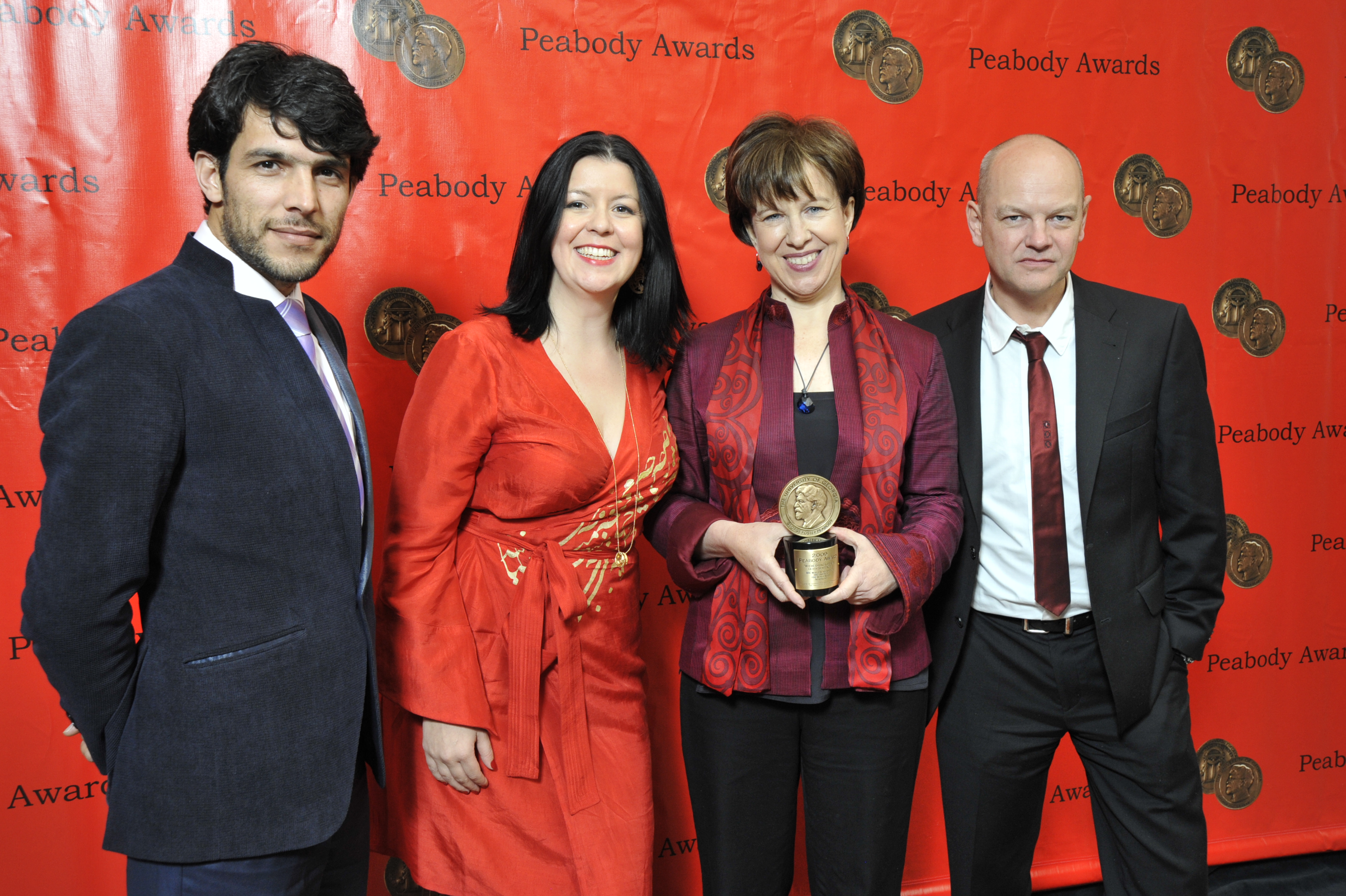 Shoaib Sharifi, Melanie Marshall, Lyse Doucet and Tony Jolliffe 69th Annual Peabody Awards Luncheon Waldorf=Astoria Hotel New York, NY USA May 17, 2010